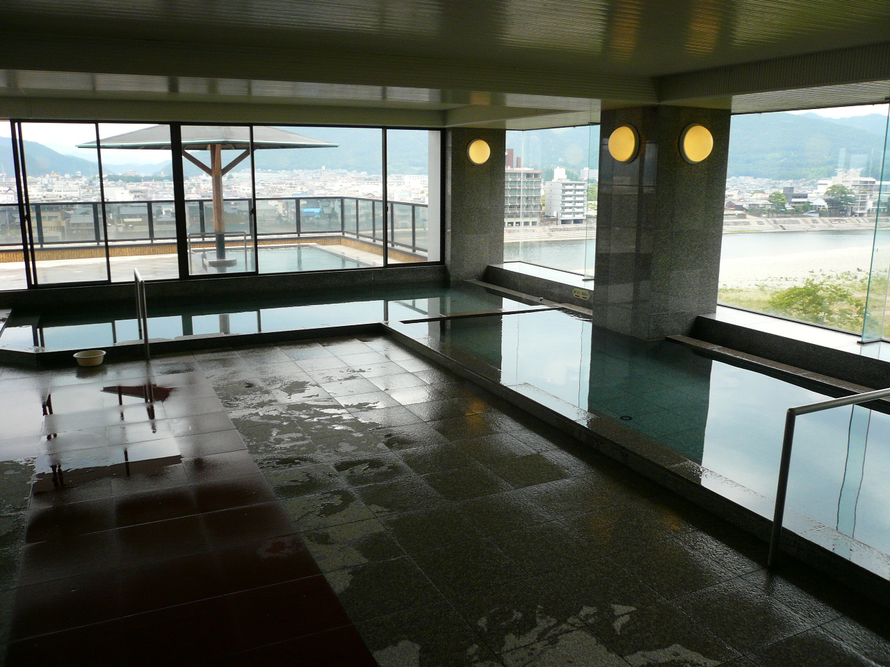 A picture of the rotenburo at Hotel Park in Gifu, Gifu Prefecture, Japan.